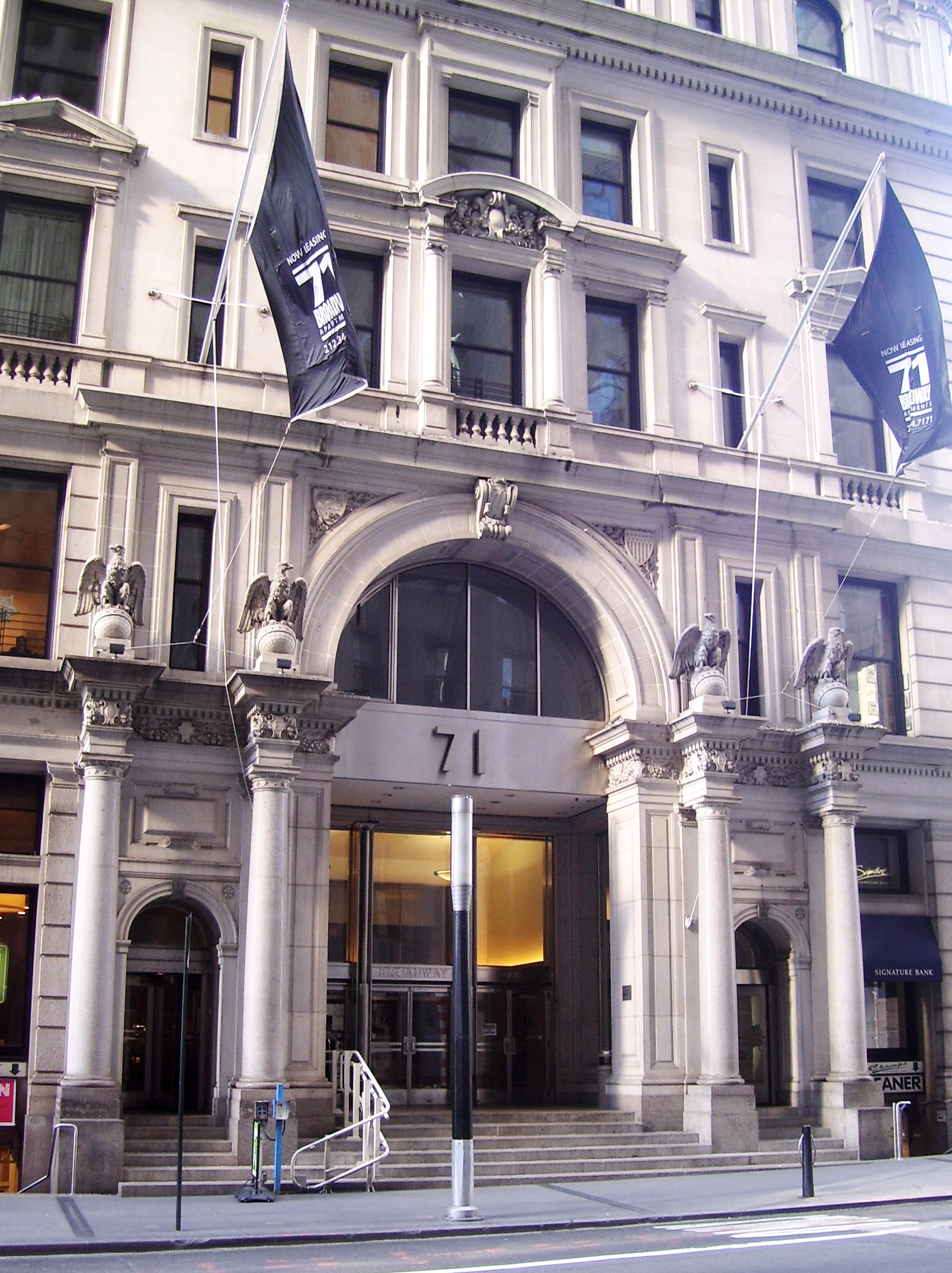 The Empire Building at 71 Broadway on the corner of Rector Street, going through to 51-53 Trinity Place, in the Financial District of Manhattan, New York City, was built in 1895-98 and was designed by Kimball & Thompson in the Classical Revival style. The 21-story building was the headquarters of U.S Steel from its founding in 1901 until 1976. It was designated a NYC landmark in 1996, and was converted into apartments in 1997. (Source: Guide to NYC Landmarks (4th ed.))